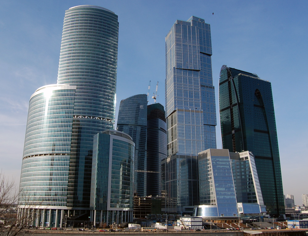 Moscow-city 2010, March